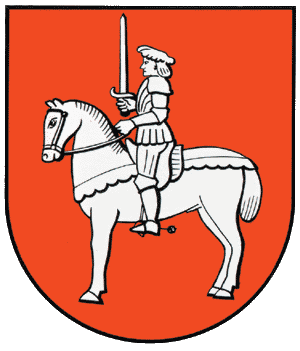 Coat of arms of Hehlingen.